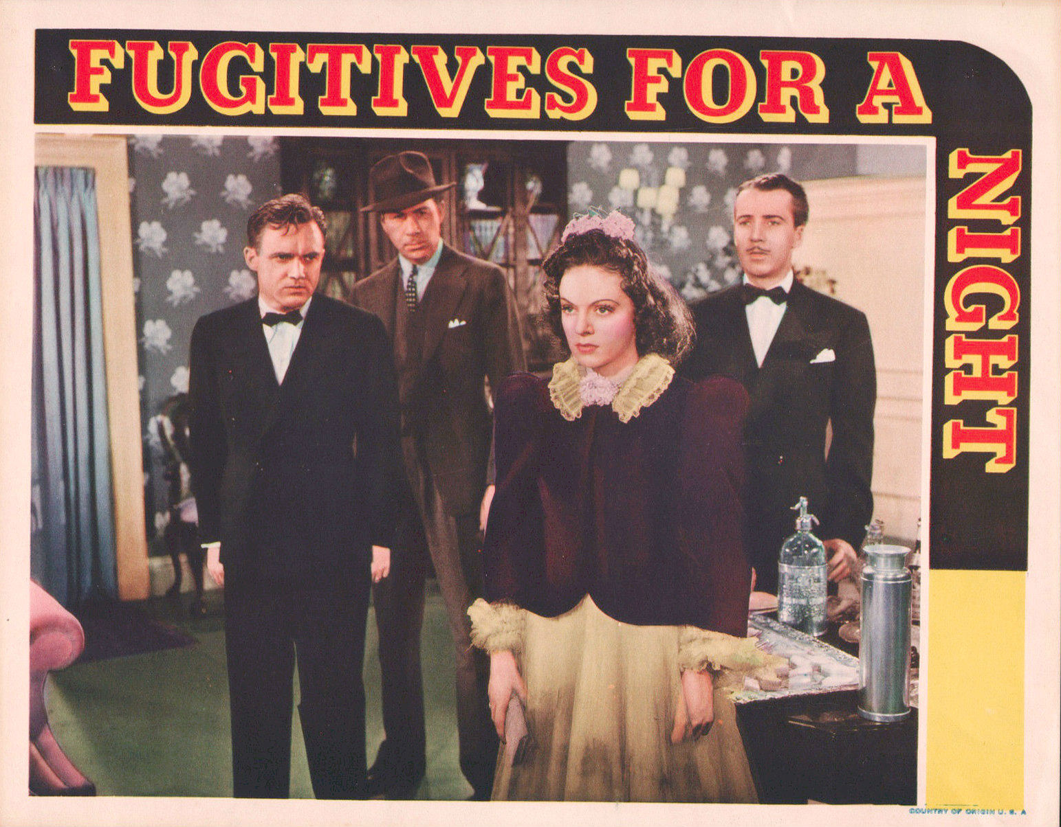 Lobby card for the 1938 film Fugitives for a Night. The item has no copyright marks on it as can be seen at links and original upload. At bottom right is Country of origin USA.